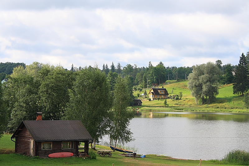 View to lake Ratasjärv in Rõuge, Estonia